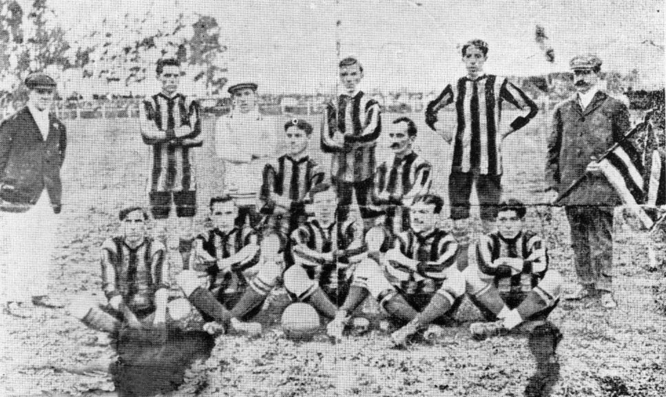 The CURCC team of 1911, Primera División champion. E. Pintos, L. Solans, J. Harley, C. Ronzoni, G. Manito, C. Camacho, L. Quaglia, F. Canavessi, J. Piendibene, A. Betucci and A. Romano.